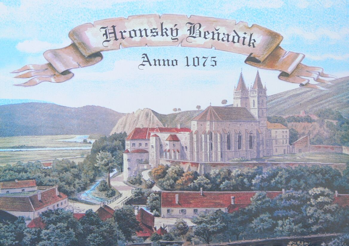 Picture of the former abbey in Hronský Beňadik placed on local market square